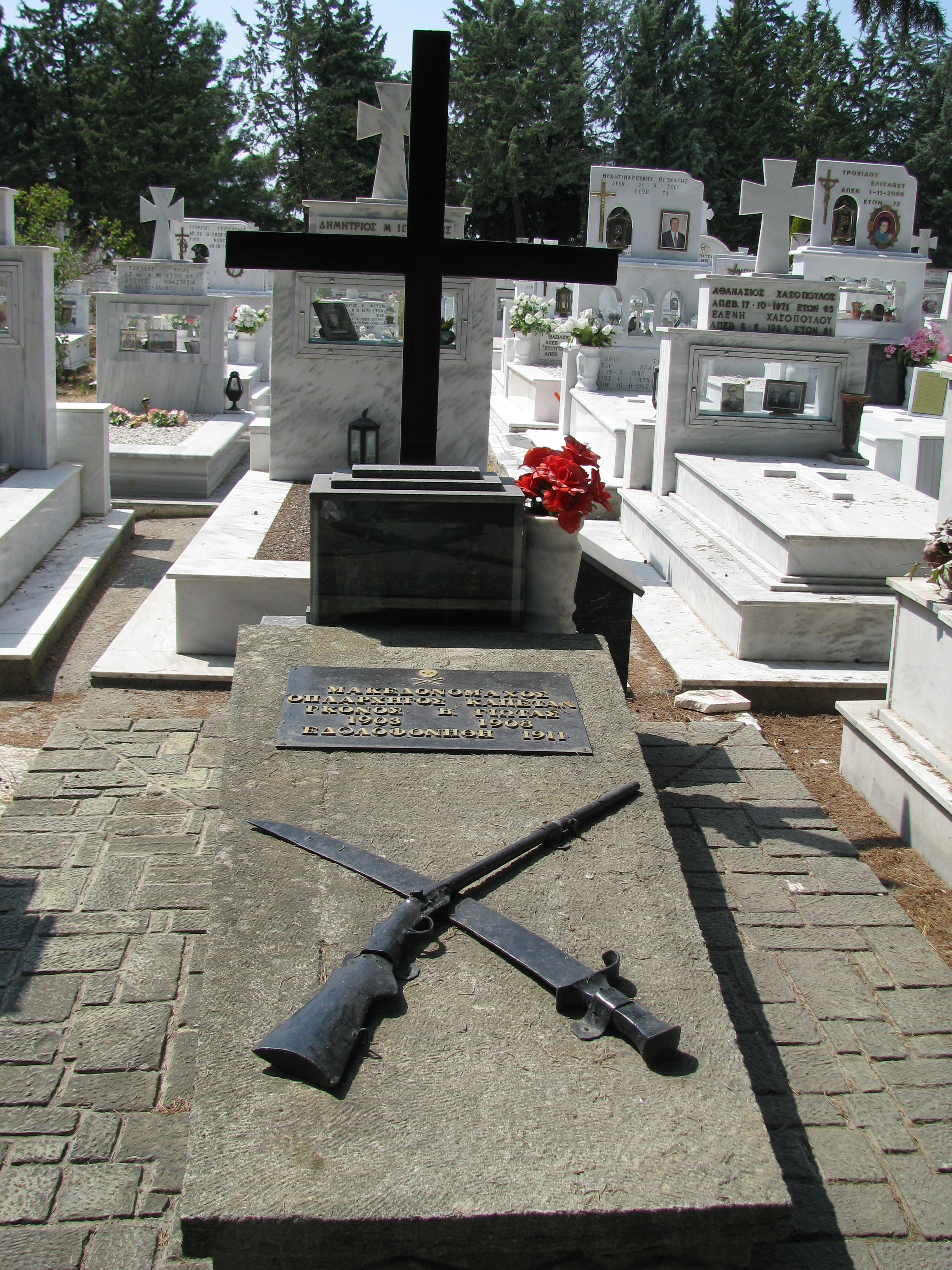 Тomb of Gono Yotov, Gianitsa/Enidje Vardar, Aegean Macedonia